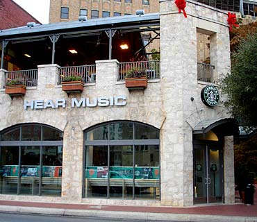 Starbucks' second Hear Music Coffeehouse at the South Bank development adjacent to the River Walk in downtown San Antonio, Texas.